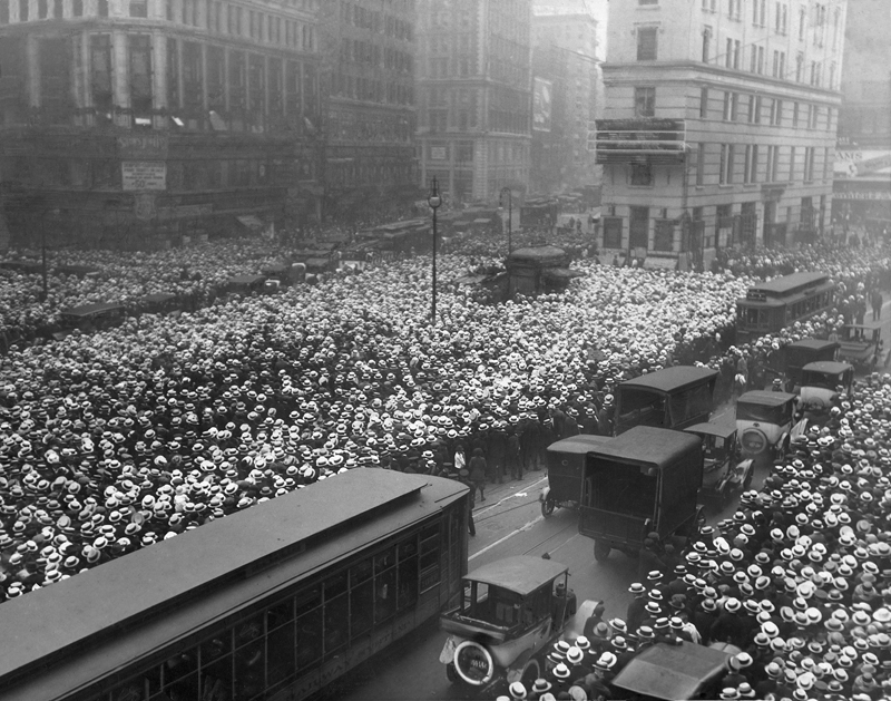 "More than 10,000 gather in Times Square outside the New York Times building to receive updates on the fight between boxers Jack Dempsey and Georges Carpentier in July, 1921."